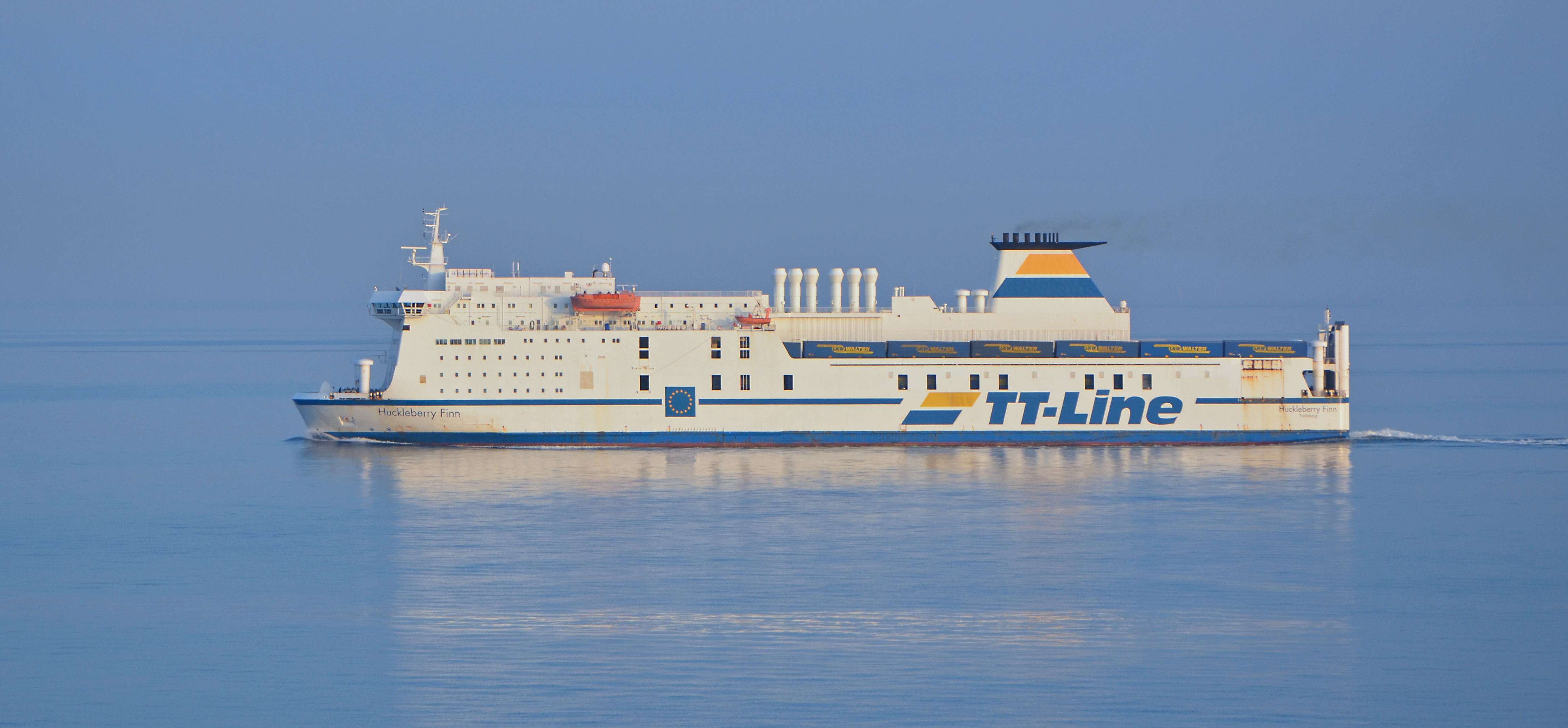 Huckleberry Finn (ship, 1988)